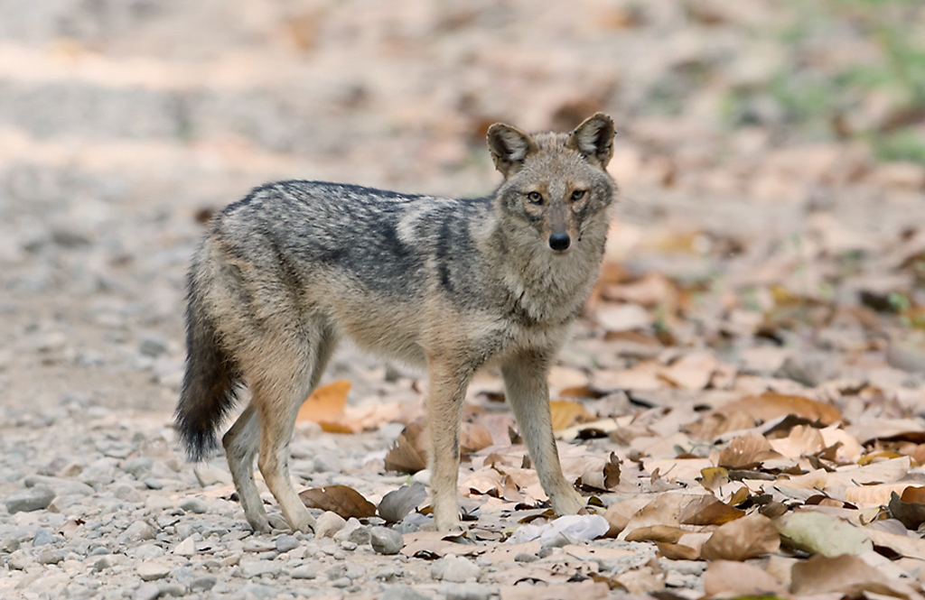 Golden Jackal ( Canis aureus) at Corbett National Park, India